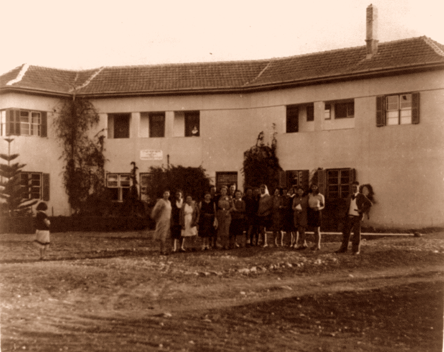 Nahalal, the school bld'g - Showing group of students.